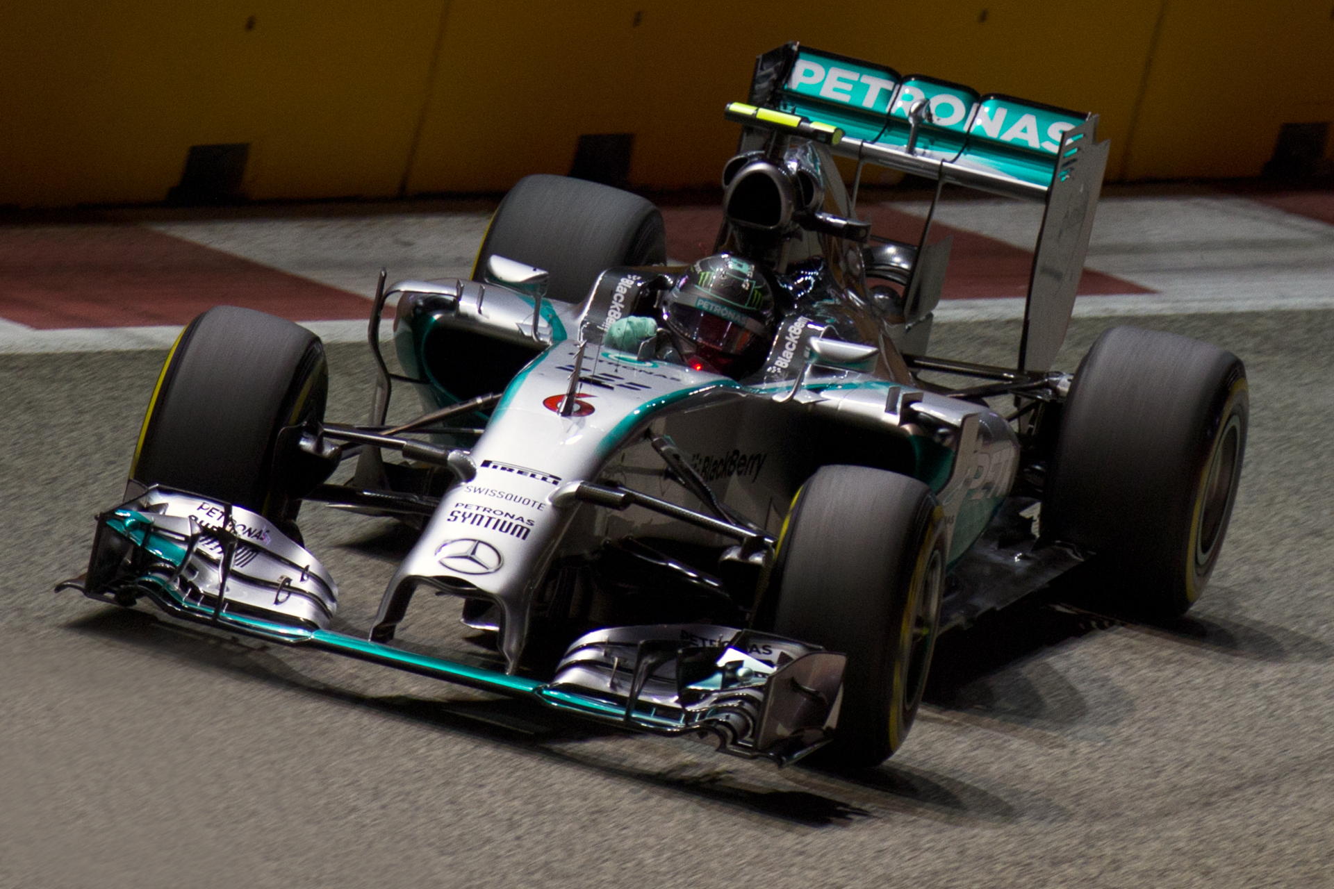 Formula One 2014 Rd.14 Singapore GP: Nico Rosberg (Mercedes GP)